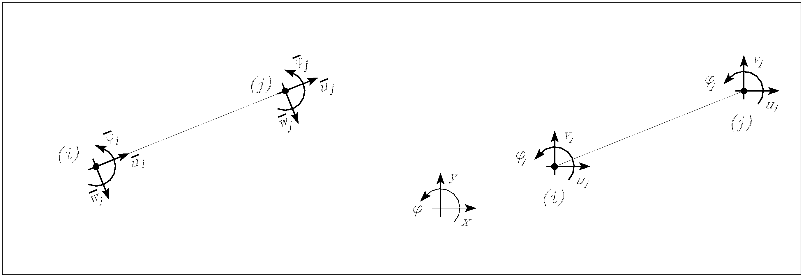 Local and global dispacements of a beam